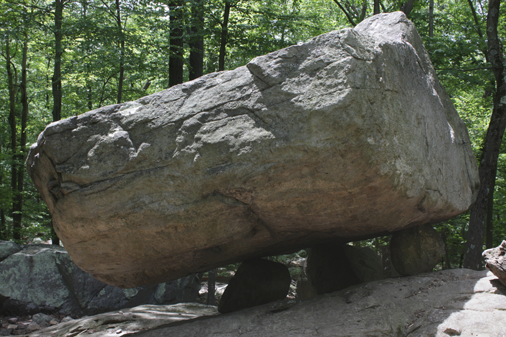 Tripod Rock, Pyramid Mountain Natural Historic Area, Morris County, New Jersey, United States - a glacial erratic.